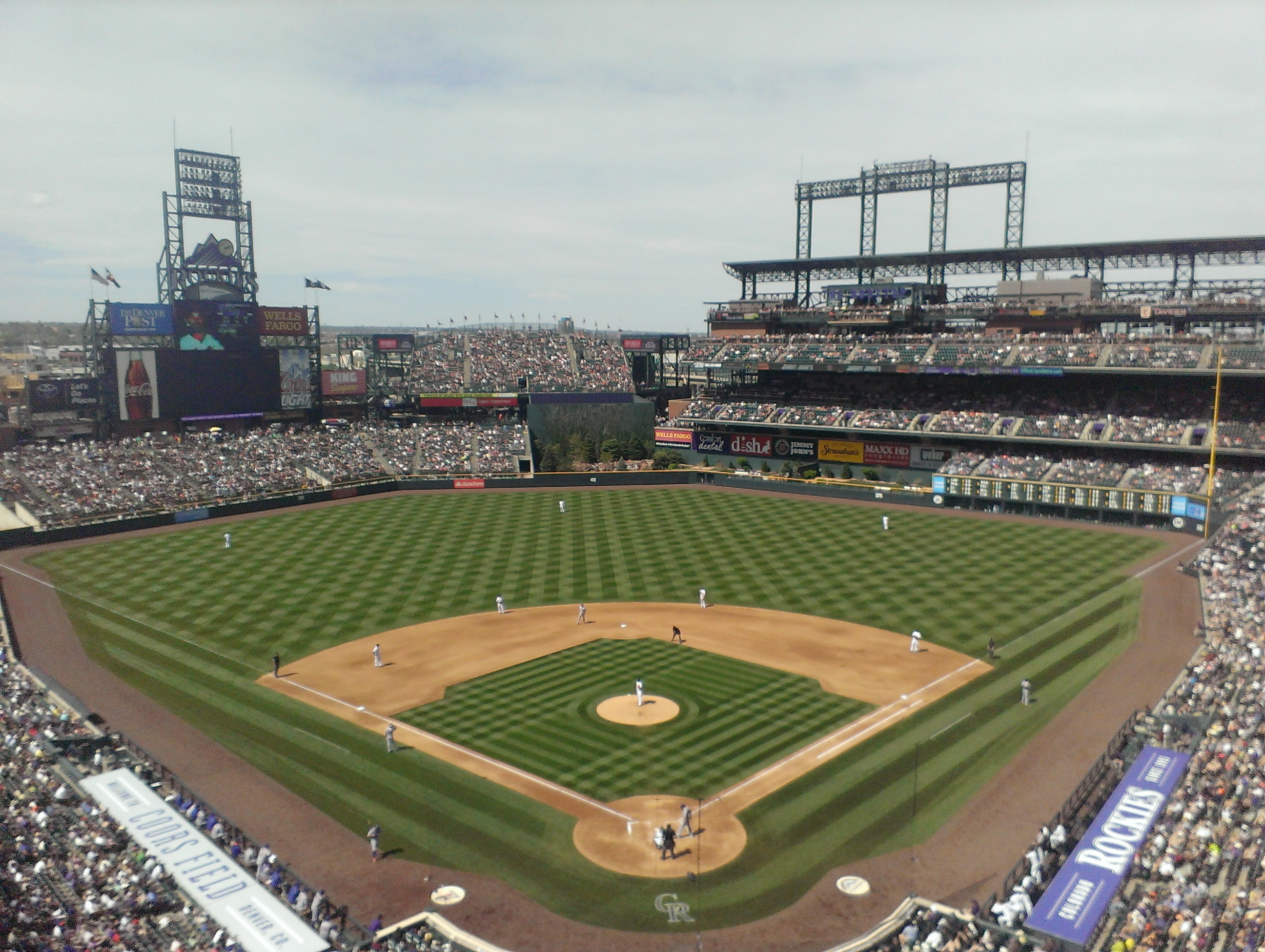 Coors Field during a game in May of 2014, featuring the new rooftop deck in right field.